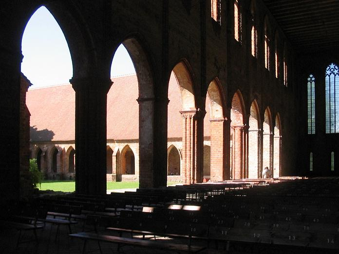 Cistercian Monastery Chorin, founded in 13th century by the together governing Ascanian Margraves of Brandenburg John I (1213–1266) and Otto III (ca. 1215–1267). Chorin is a municipality in the District Barnim, state Brandenburg, Germany.